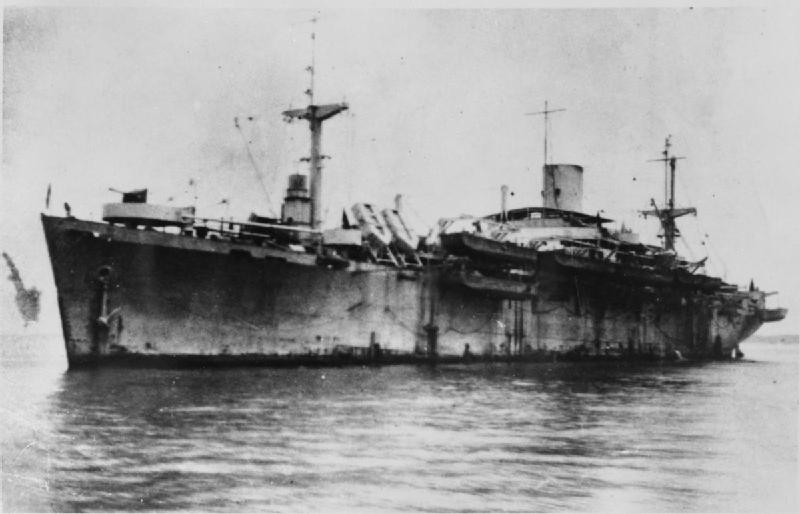 British Landing Ship, Infantry HMS SAINFOIN (ex HMS EMPIRE CROSSBOW) at anchor at Singapore